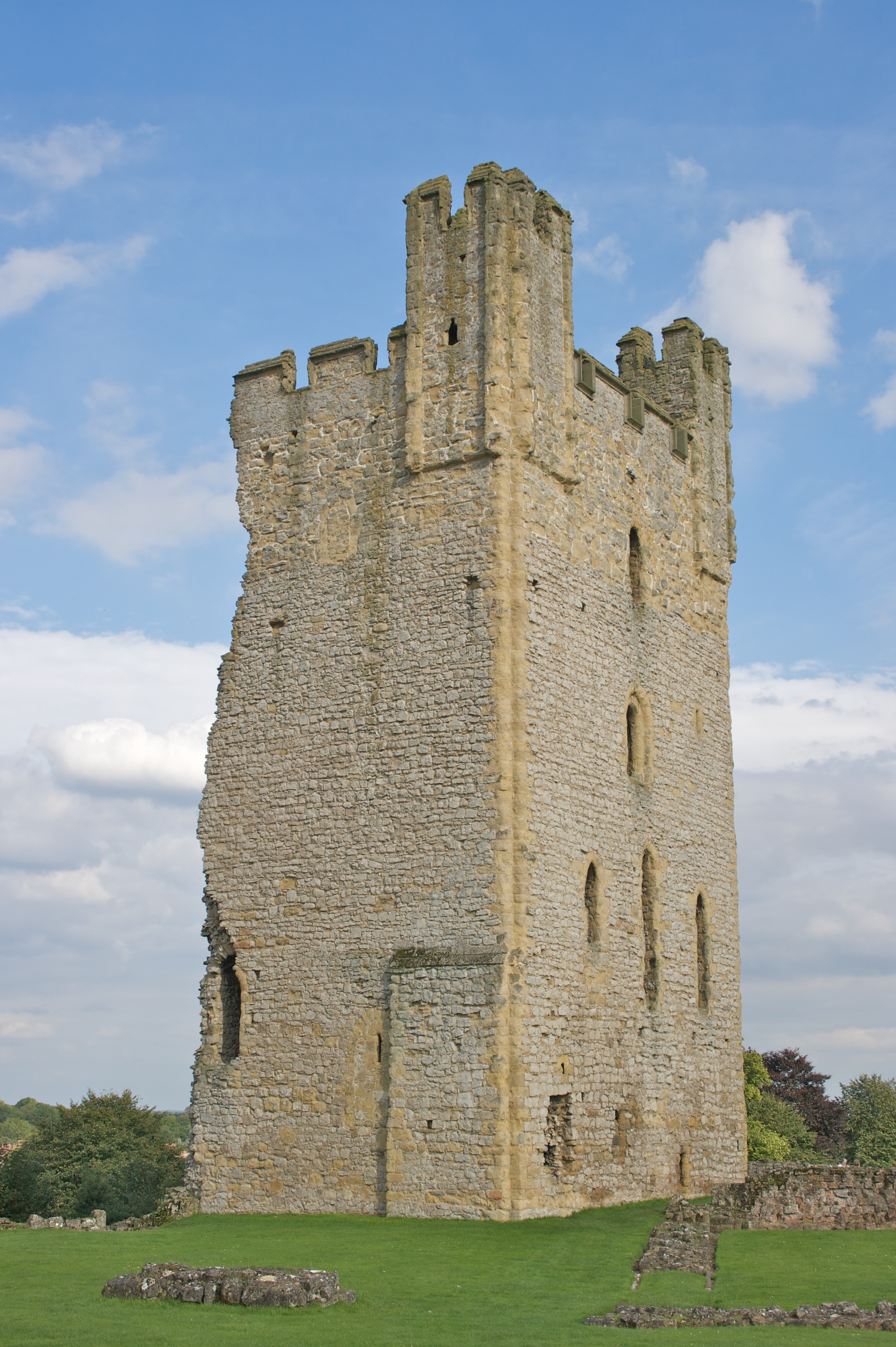 Helmsley Castle. "The East Tower. This tower was built in the 12th century by Robert de Roos, as a statement of his power as Lord of Helmsley. It was heightened in the 14th century and particularly destroyed after the Civil War siege of 1644."